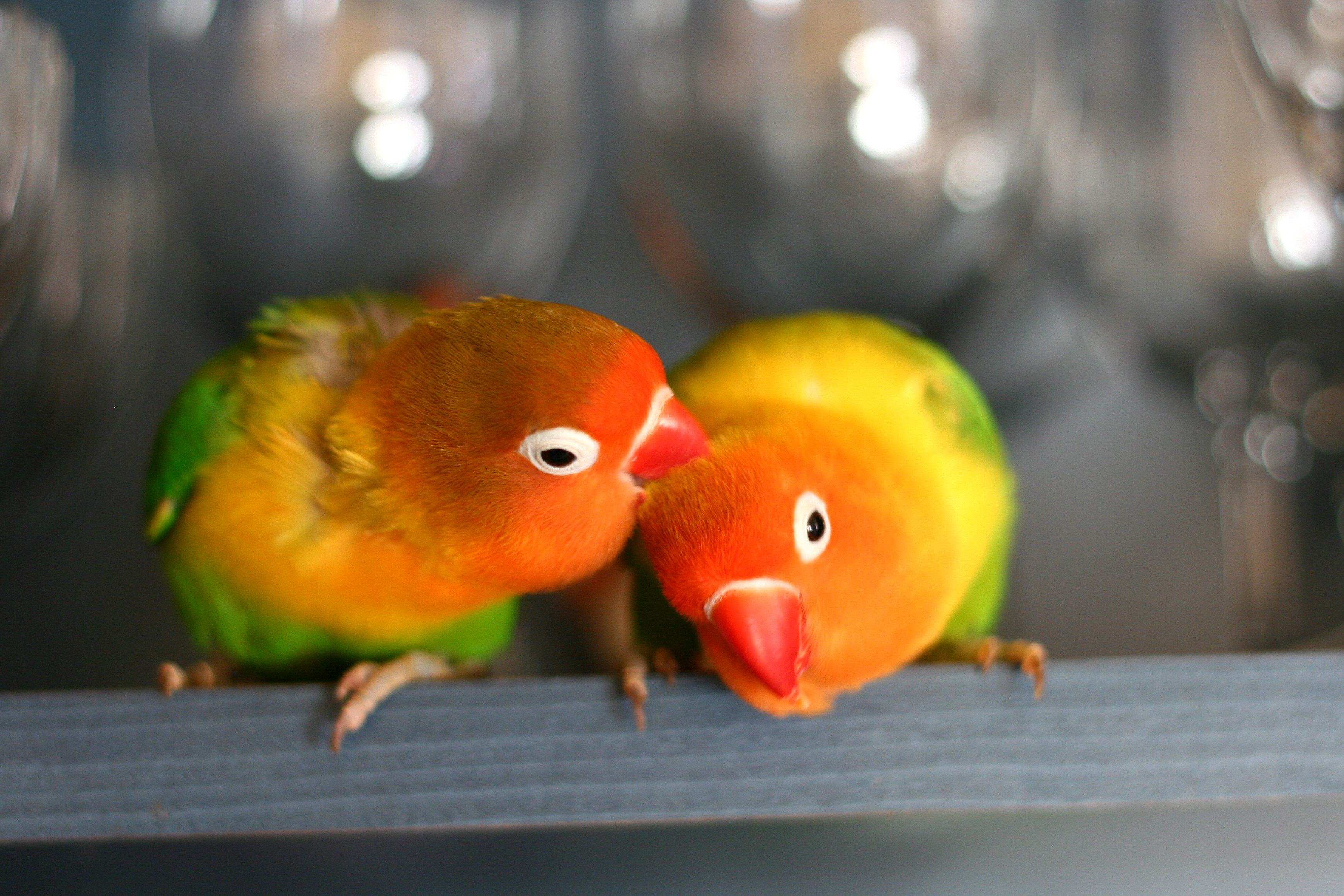 Fischer's Lovebirds, Agapornis fischeri, social grooming.